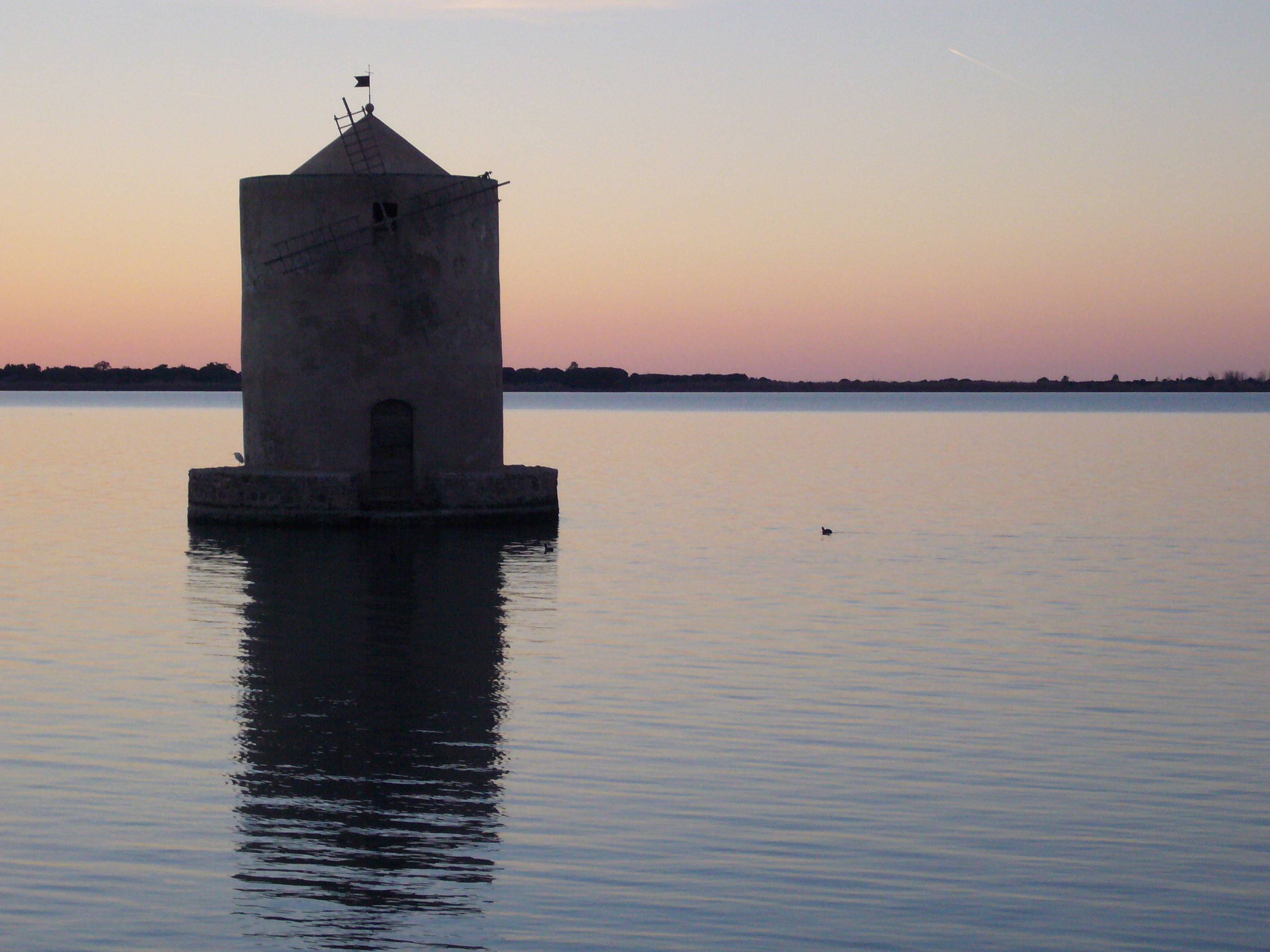 The windmill on the lagoon, Orbetello. By Howard Hudson (Feb, 2007)